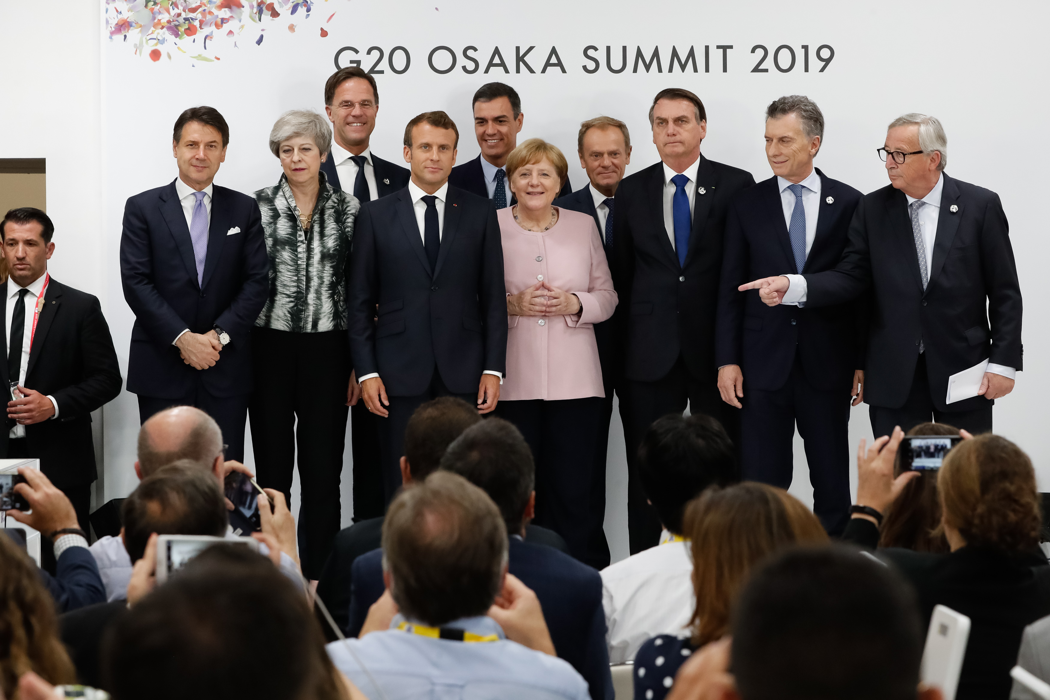 Mercosur and European Union leaders gathered during a press conference in Osaka, Japan on June 29, 2019.